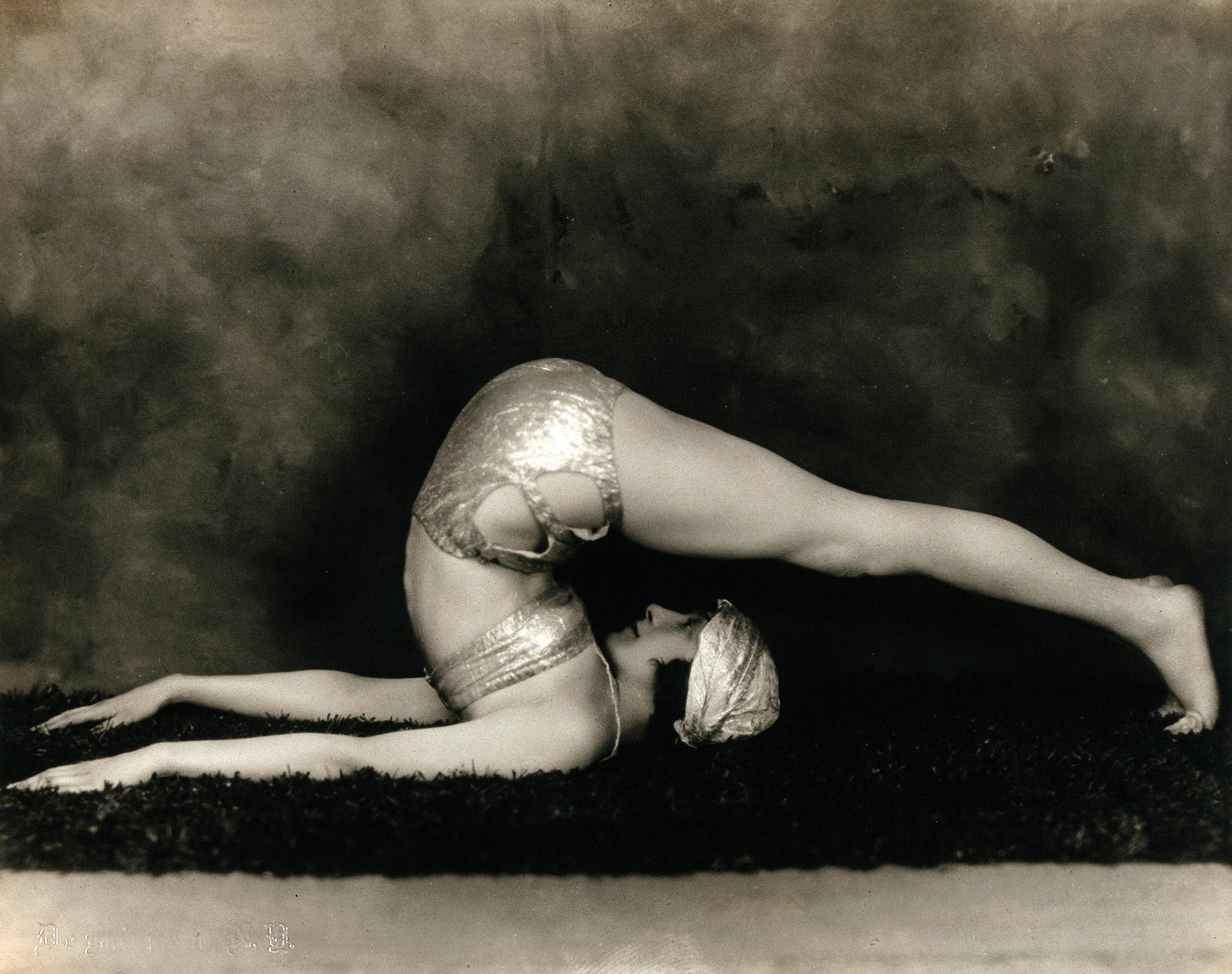 Marguerite Agniel posing in Halasana, plough posture, wearing a revealing silver (?) two-piece costume and matching turban, on a rug, in a photographic studio. Photograph by J. de Mirjian, 1928 at latest. Iconographic Collections Keywords: de Mirjian Studios; Marguerite Agniel; Gymnastics; Exercise; Women